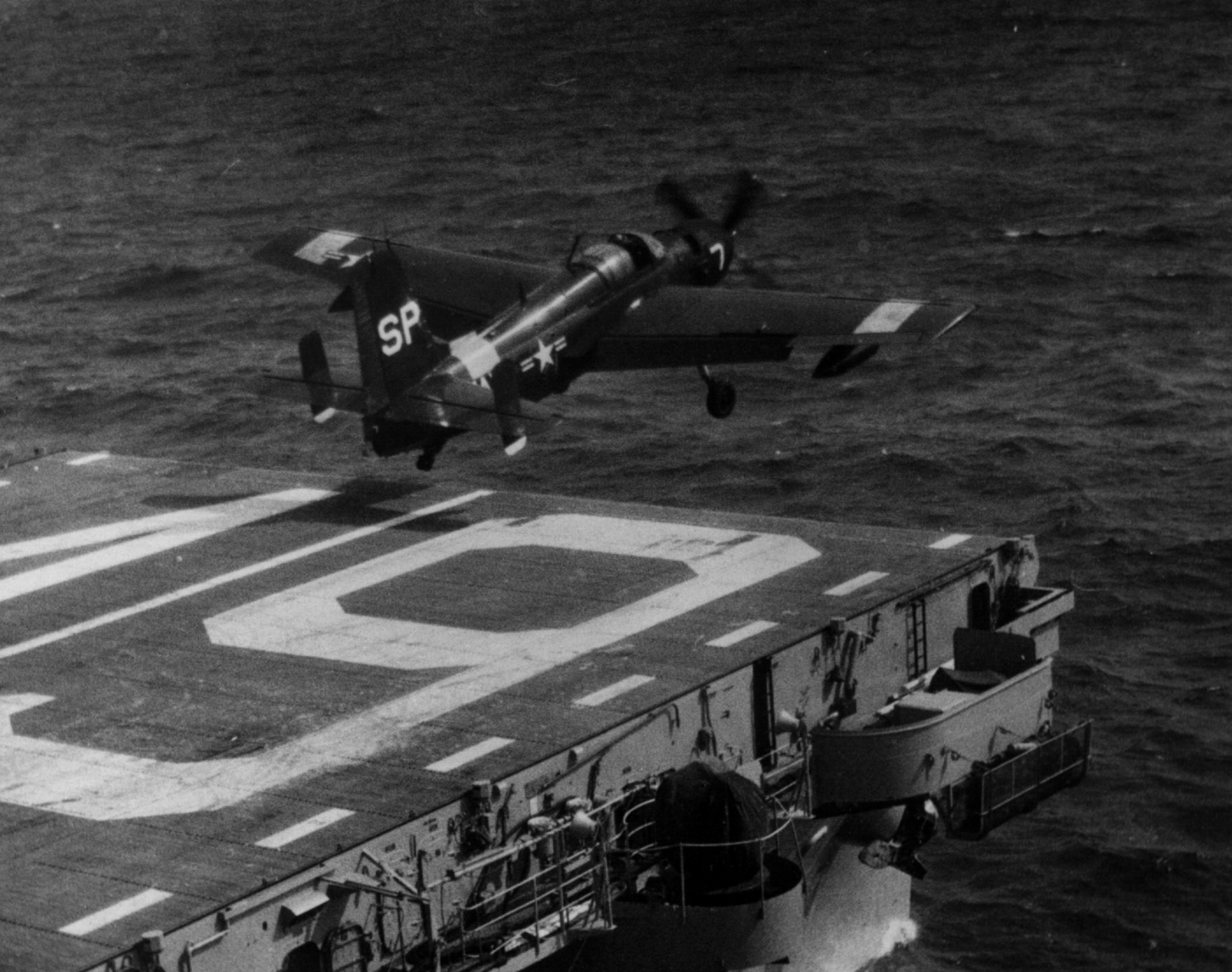 A U.S. Navy Grumman AF-2S Guardian of anti-submarine squadron VS-31 Top Cats is launched from the deck of the light aircraft carrier USS Wright (CVL-49), circa 1953.